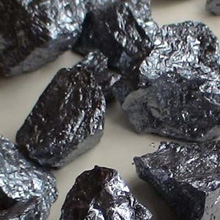 Chunk silicon made using the Siemens Process.